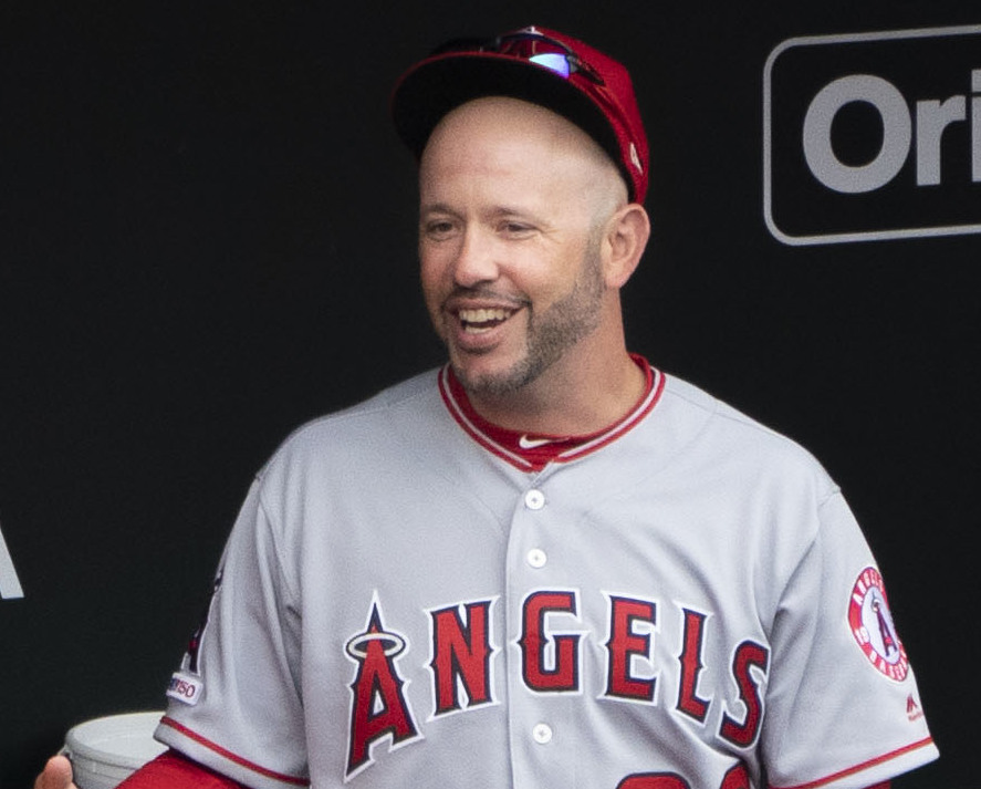 Mike Trout and other Los Angeles Angels in the dugout at Camden Yards during a 2019 game in Baltimore.